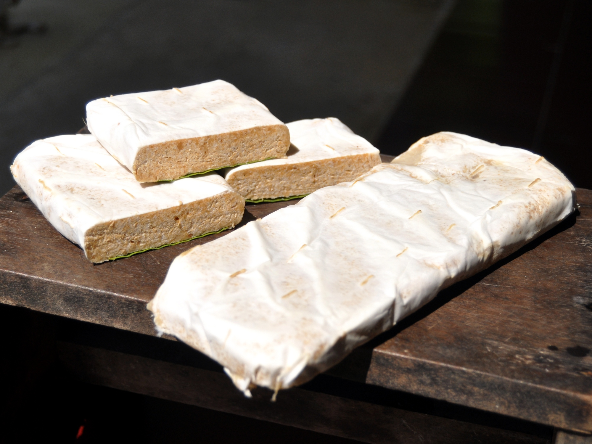 Gembus tempeh, sliced. From traditional market in Kebumen, Central Java, Indonesia.